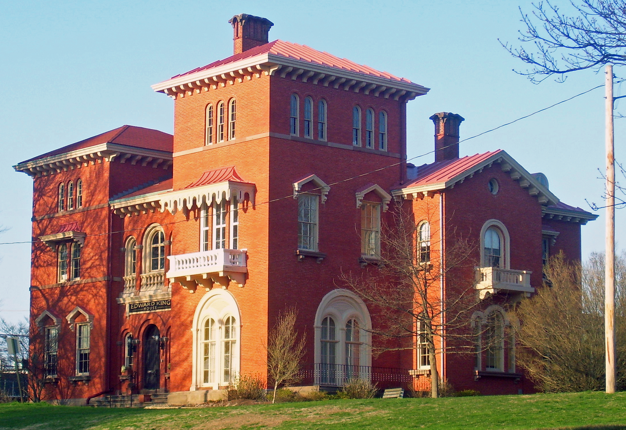 The Edward King House — in Newport, Rhode Island. 1845 brick Victorian Italianate style mansion.